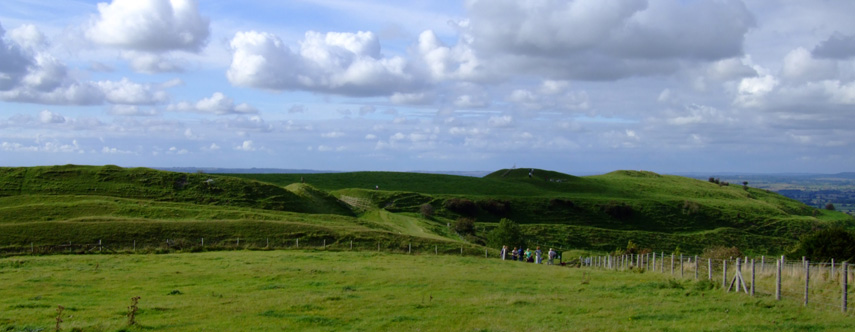 On Hambledon hill, looking north. – Panoramic view of Hambledon Hill, Shroton, Dorset, England. Taken on the weekend of Red Earth's Enclosure performance.